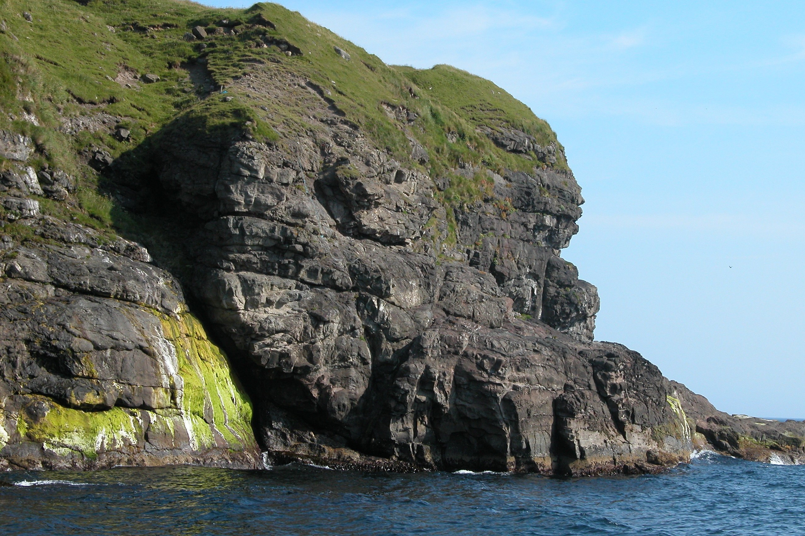 Coast at Viðareiði on Viðoy, Faroe Islands. View westwards on Svínoy